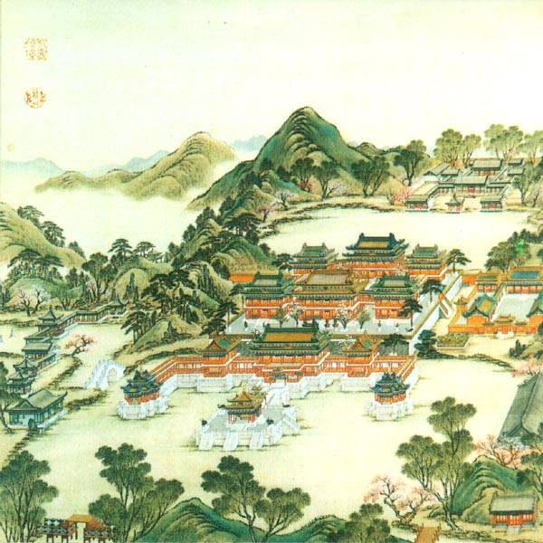 Painting of the Old Summer Palace gardens — Beijing.